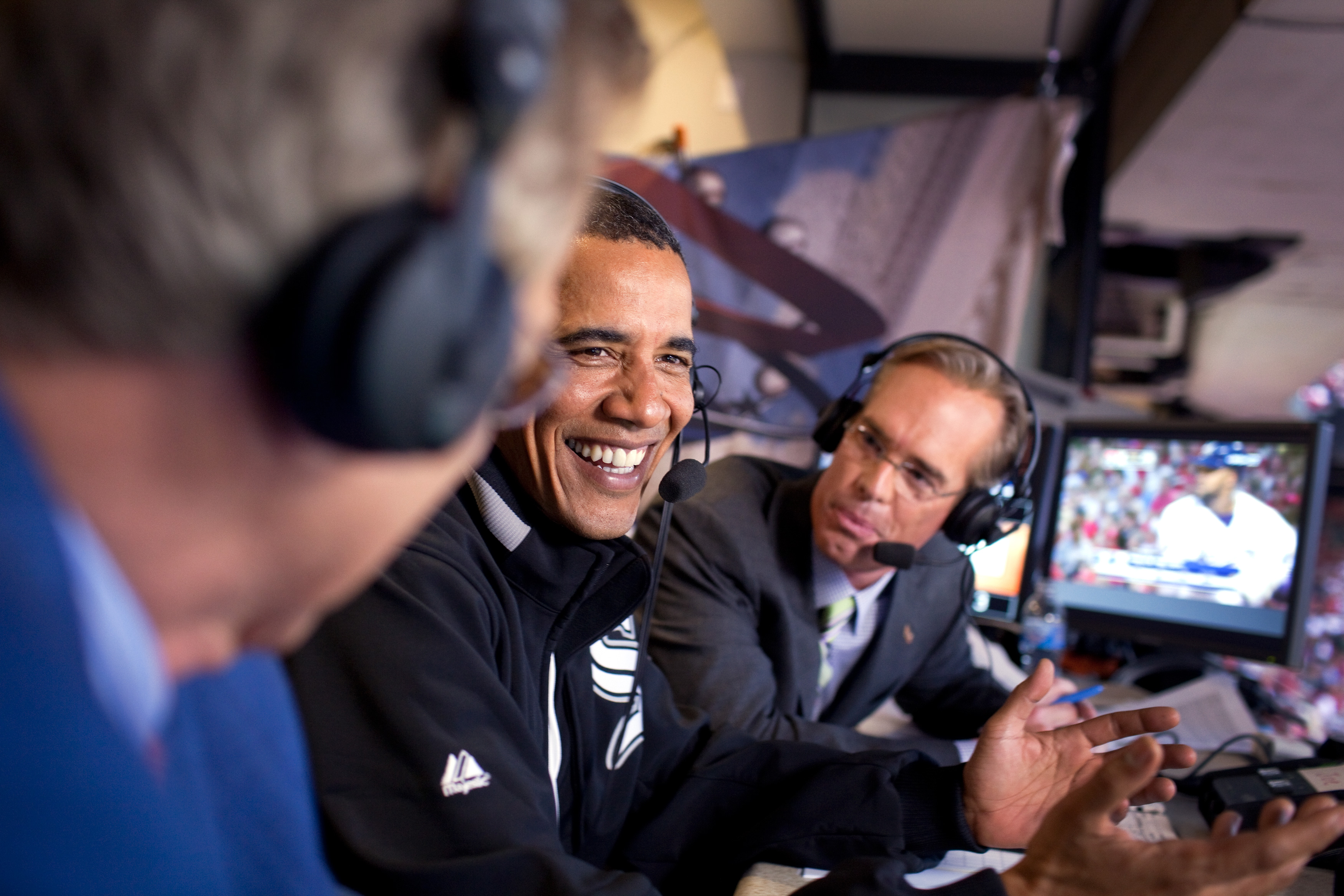 President Barack Obama joins Fox Sports announcers Joe Buck, right, and Tim McCarver, left, in the broadcast booth at the MLB All-Star Game in St. Louis, July 14, 2009. (Official White House Photo by Pete Souza) This official White House photograph is in the public domain from a copyright perspective, so while restrictions such as personality or privacy rights may apply, in general, manipulations are allowed.